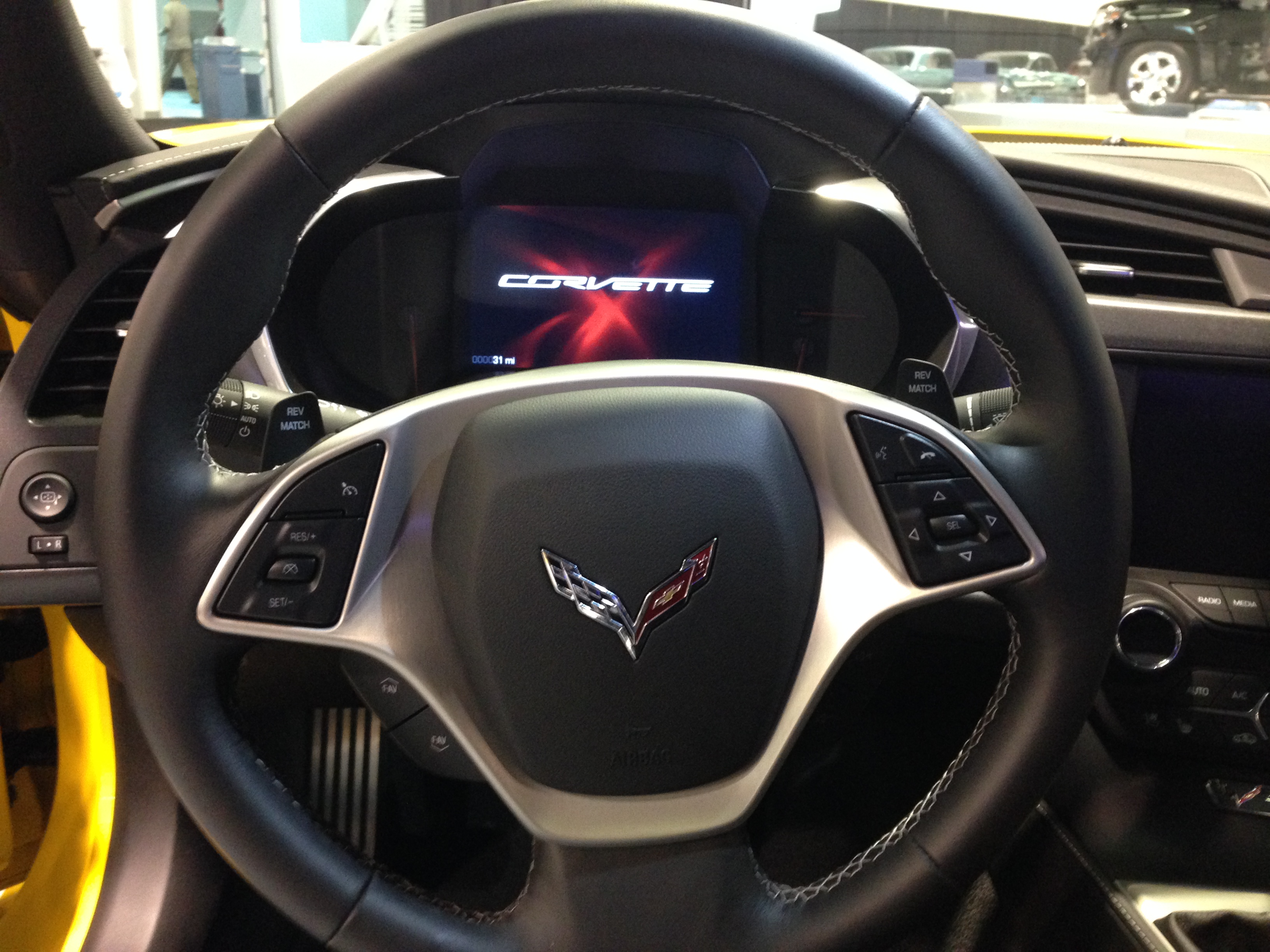 The new C7 Chevrolet Corvette at the 2013 LA Auto Show. Perfect look at the steering wheel and TFT screen in the gauge cluster.